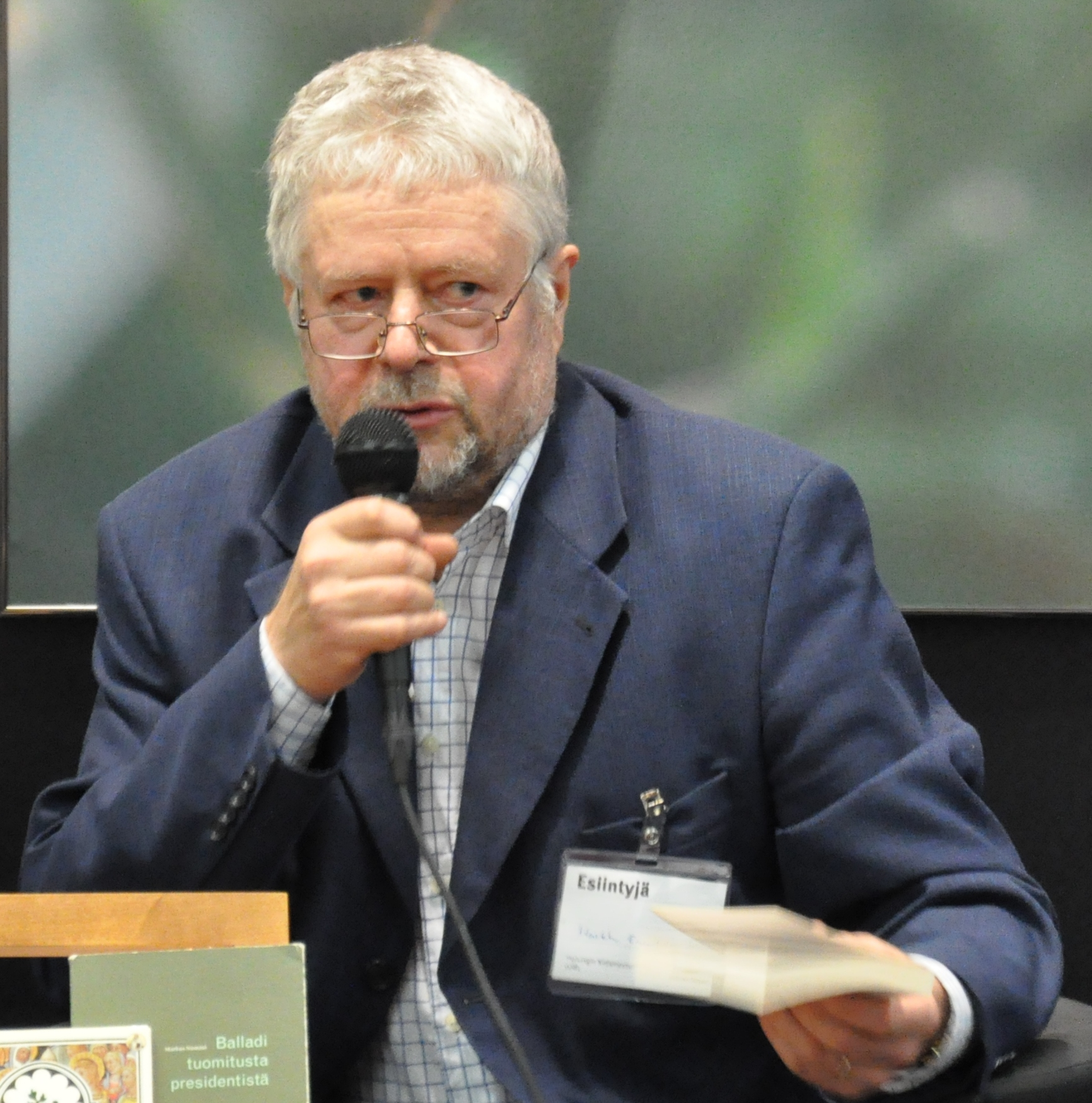 Finnish writer Markku Envall at the Helsinki Book Fair 2009.